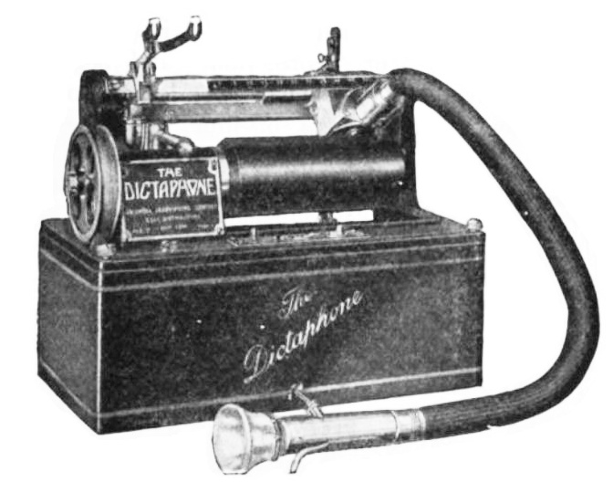 Photo of a Dictaphone wax cylinder dictation machine, made by Columbia Graphophone Company in the 1920s. The user pressed a button on the mouthpiece, which started the cylinder turning, and spoke into it. The sound travelled down the tube and vibrated a membrane attached to a needle cutting a groove in the wax surface of the cylinder. The needle inscribes a record of the sound vibrations into the cylinder. To replay it, the mouthpiece was detached and replaced with a pair of 'stethoscope' type earphones. Each wax cylinder can hold about 1200-1500 words, and can be reused 100-120 times by erasing it with a machine that 'shaves' the surface off. Alterations: removed caption, erased noise in white areas, increased brightness.